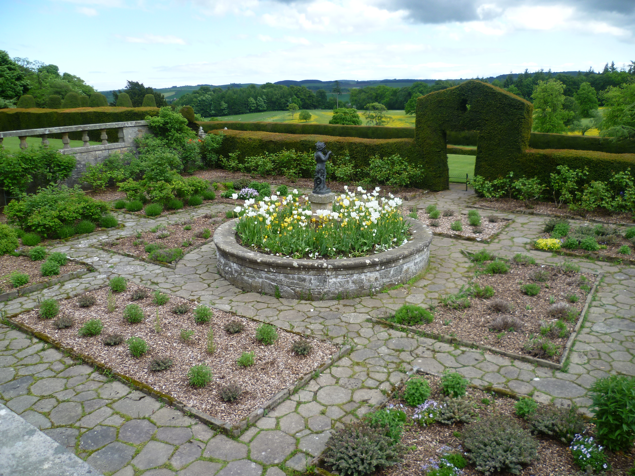 Hill of Tarvit garden, near Cupar, Fife